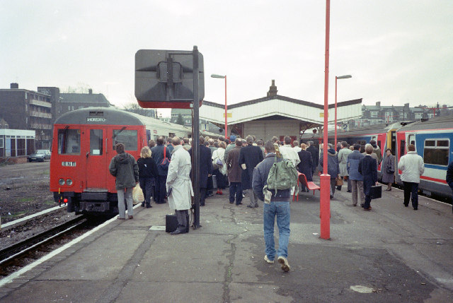 Scene at New Cross Gate Station in 1991. Some hiatus has halted South Central trains bound for London Bridge and passengers are piling aboard the East London Underground train going to Shoreditch.